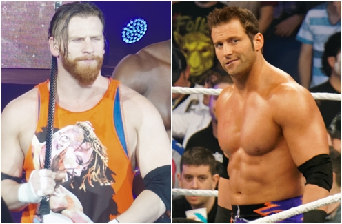 Professional wrestlers and current Raw Tag Team Champions, Curt Hawkins and Zack Ryder.